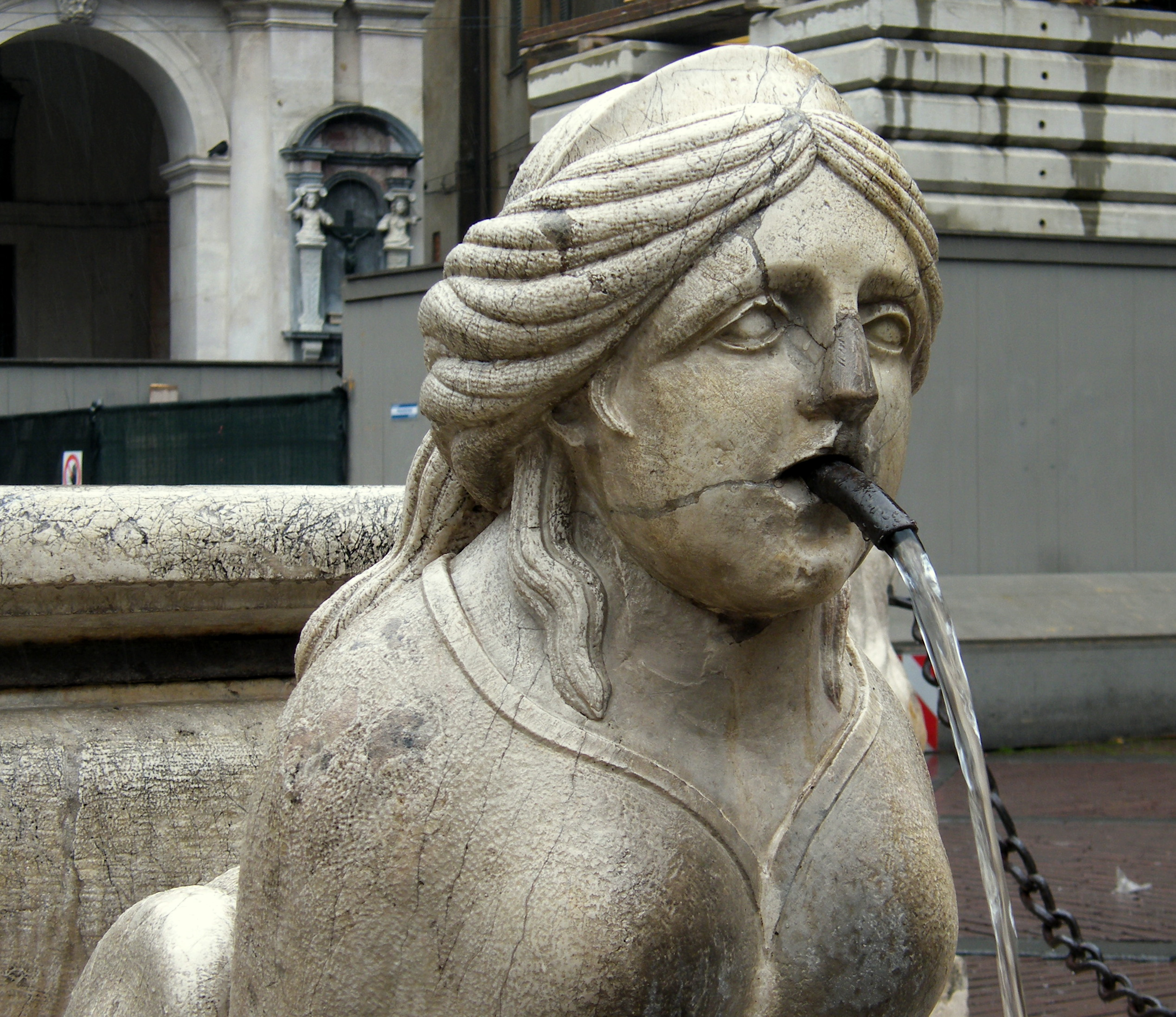 Fontana Contarini Bergamo